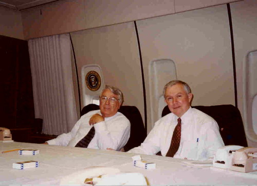 Senator Jeff Sessions and Congressman Terry Everett on Air Force One in 2002